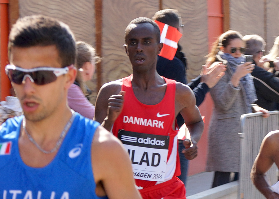 Abdi Hakin Ulad - Danish long-distance runner during 2014 IAAF World Half Marathon Championships in Copenhagen, Denmark